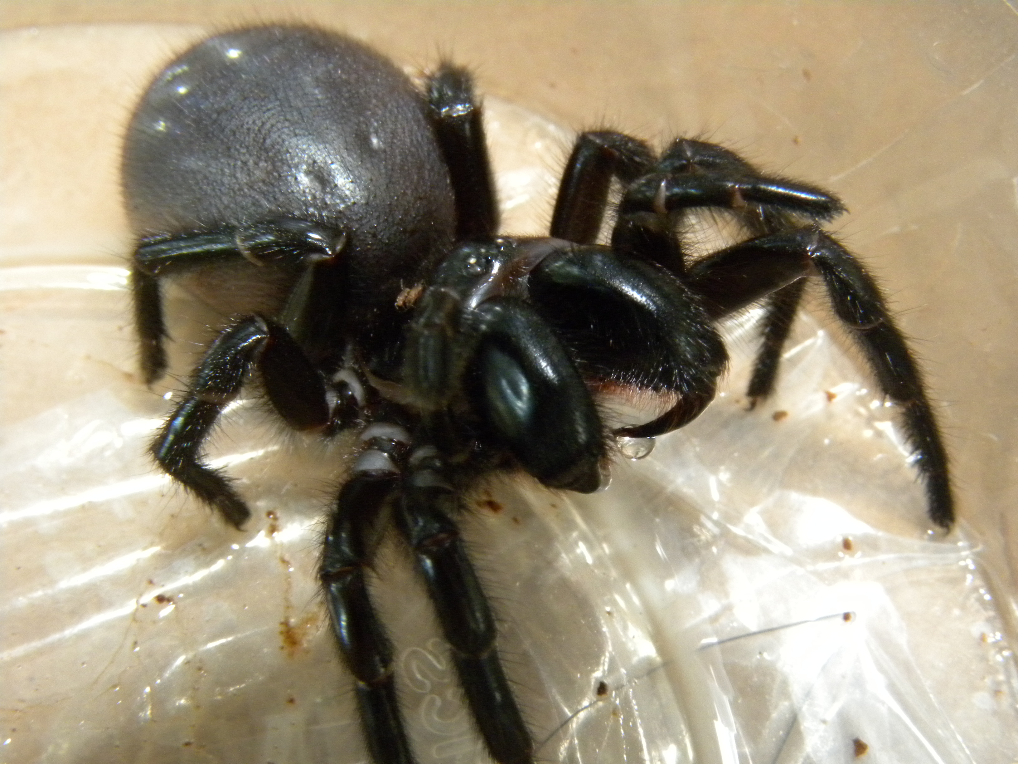 Southern tree funnelweb (Hadronyche cerberea), fangs bared with a drop of venom